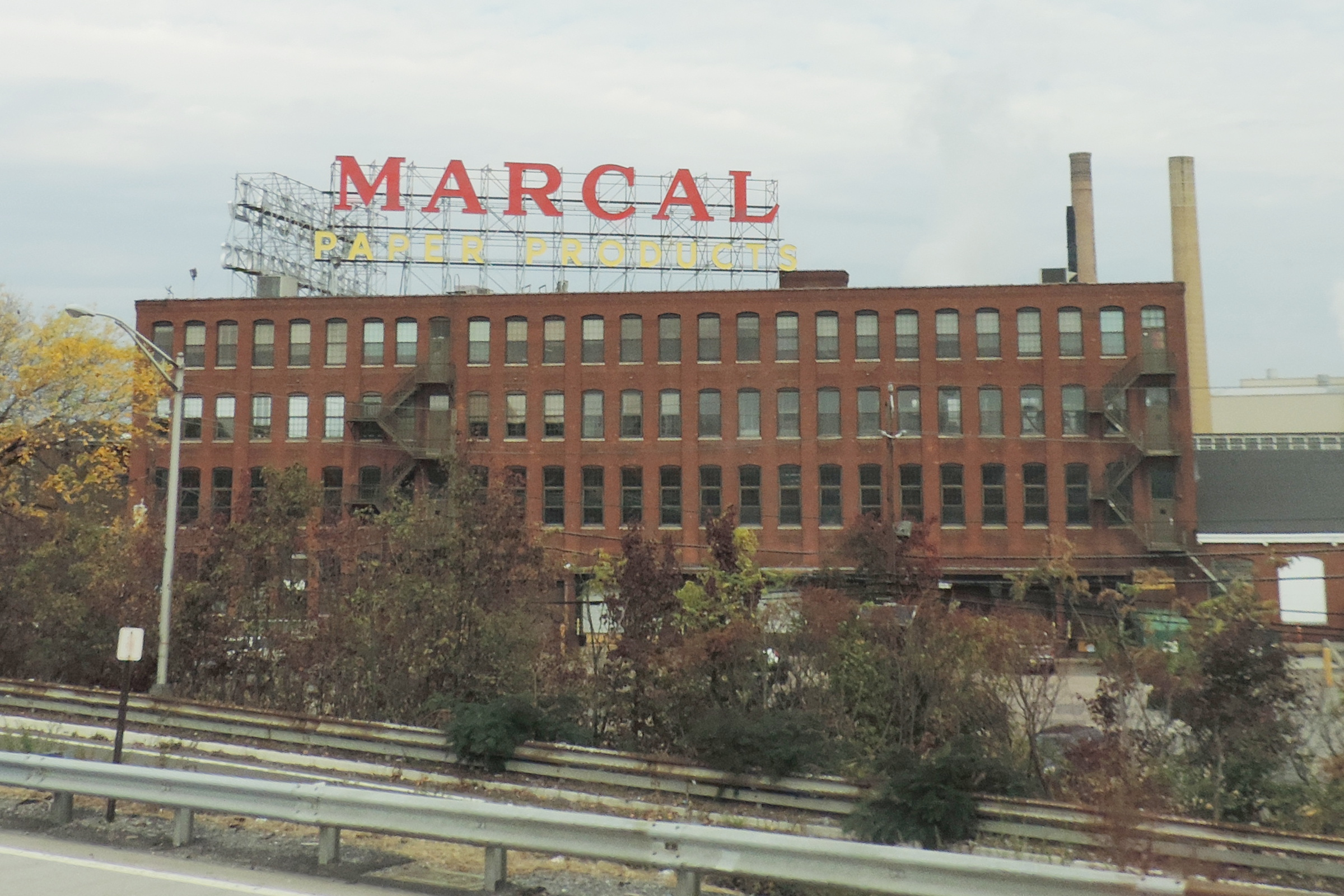 Looking northwest at paper factory on a mostly cloudy morning.